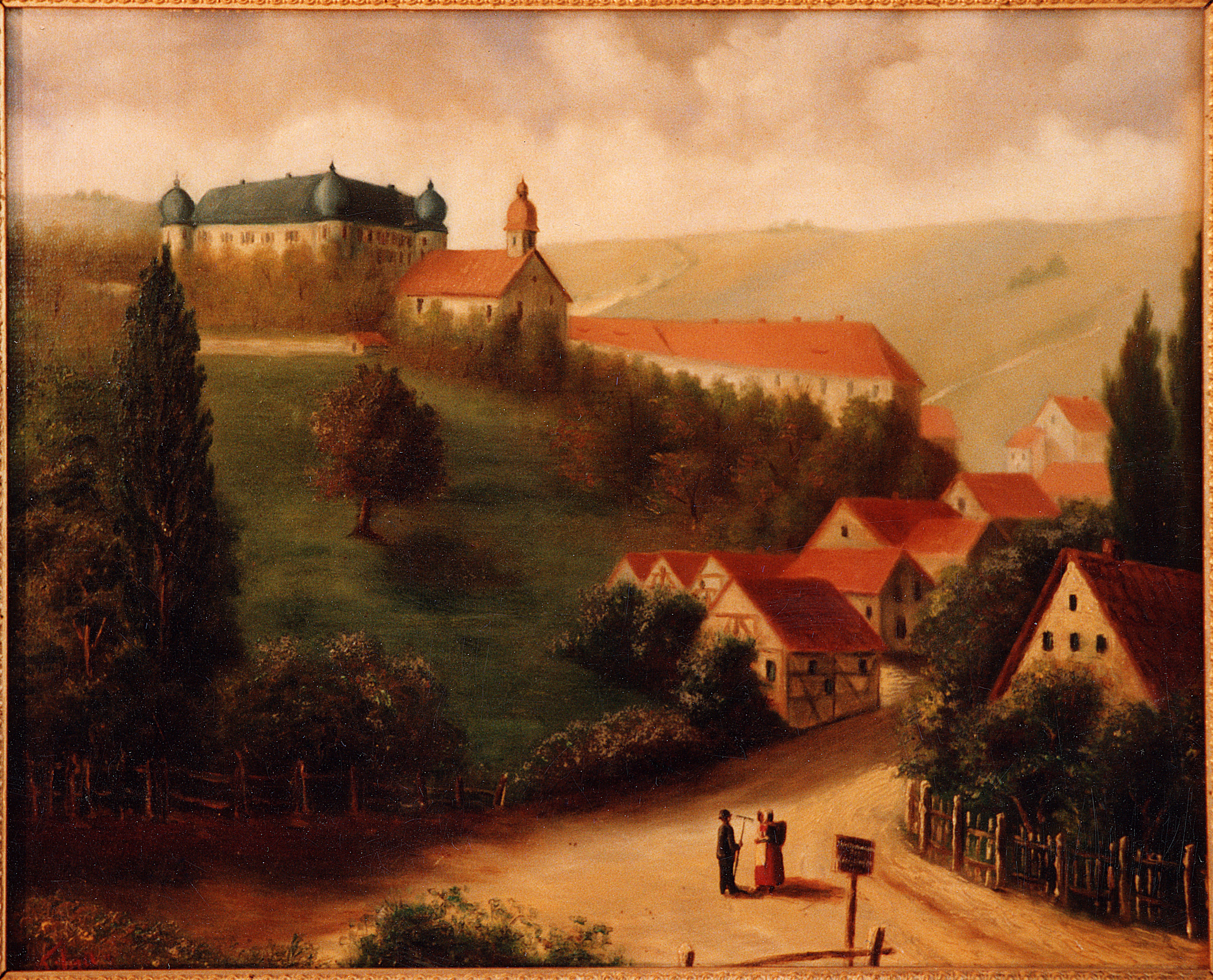 Painting of Waltershausen apparently by Caroline Freifrau von Bibra zu Brennhausen (1835-1915) born Mariane Henriette Luise Caroline Freiin Sartorius von Waltershausen, Description on back of frame and signature on painting make it unclear whether Caroline or her son, Wolfgang von Bibra, is the painter.